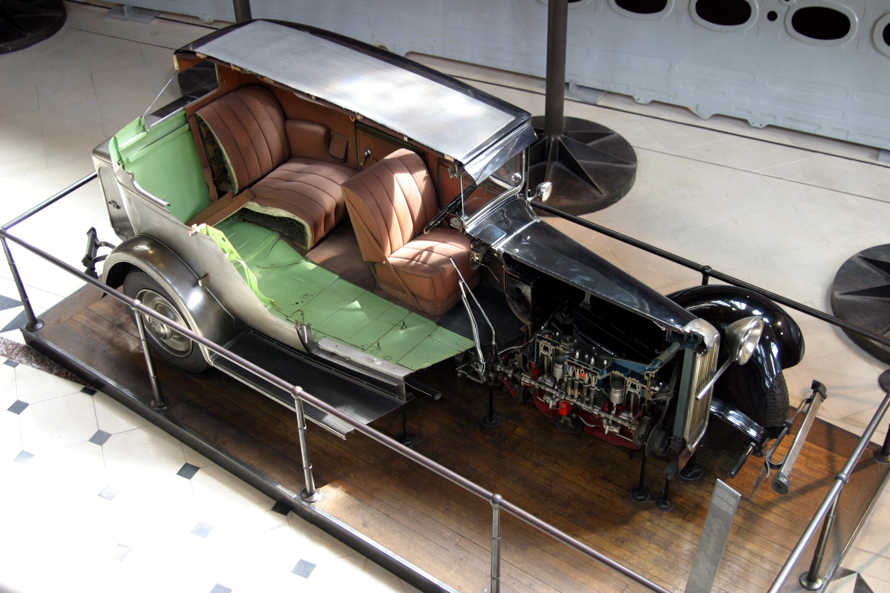 Citroën C 6 1931